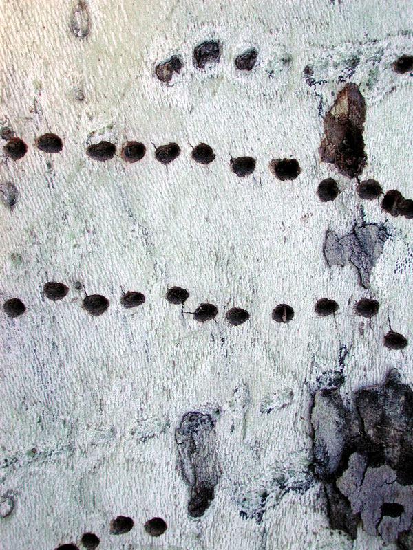 Drill holes made by a Sphyrapicus woodpecker, Maricopa Co., Arizona, USA.